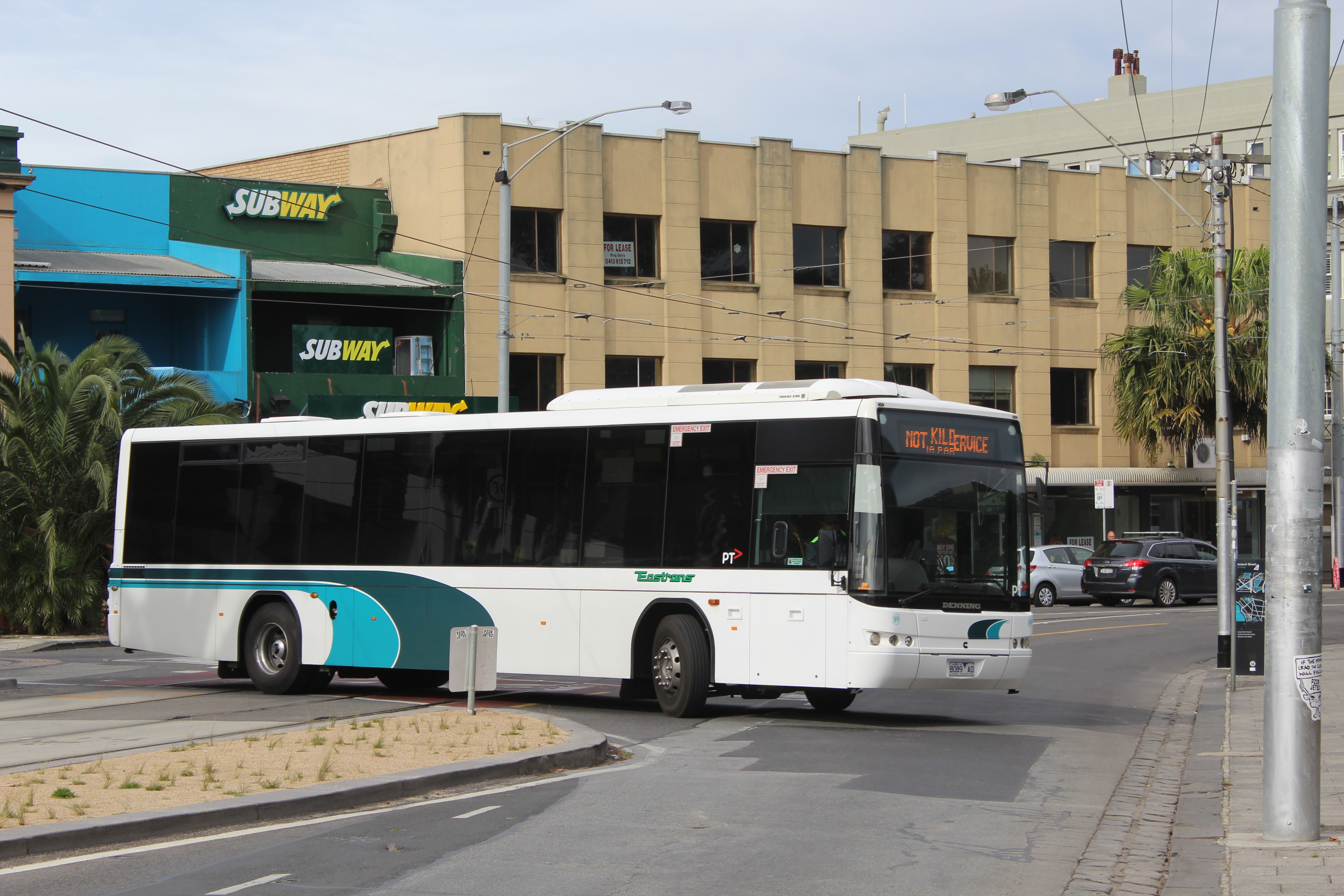 Eastrans number 89 (8089AO) Denning in St Kilda, 2013